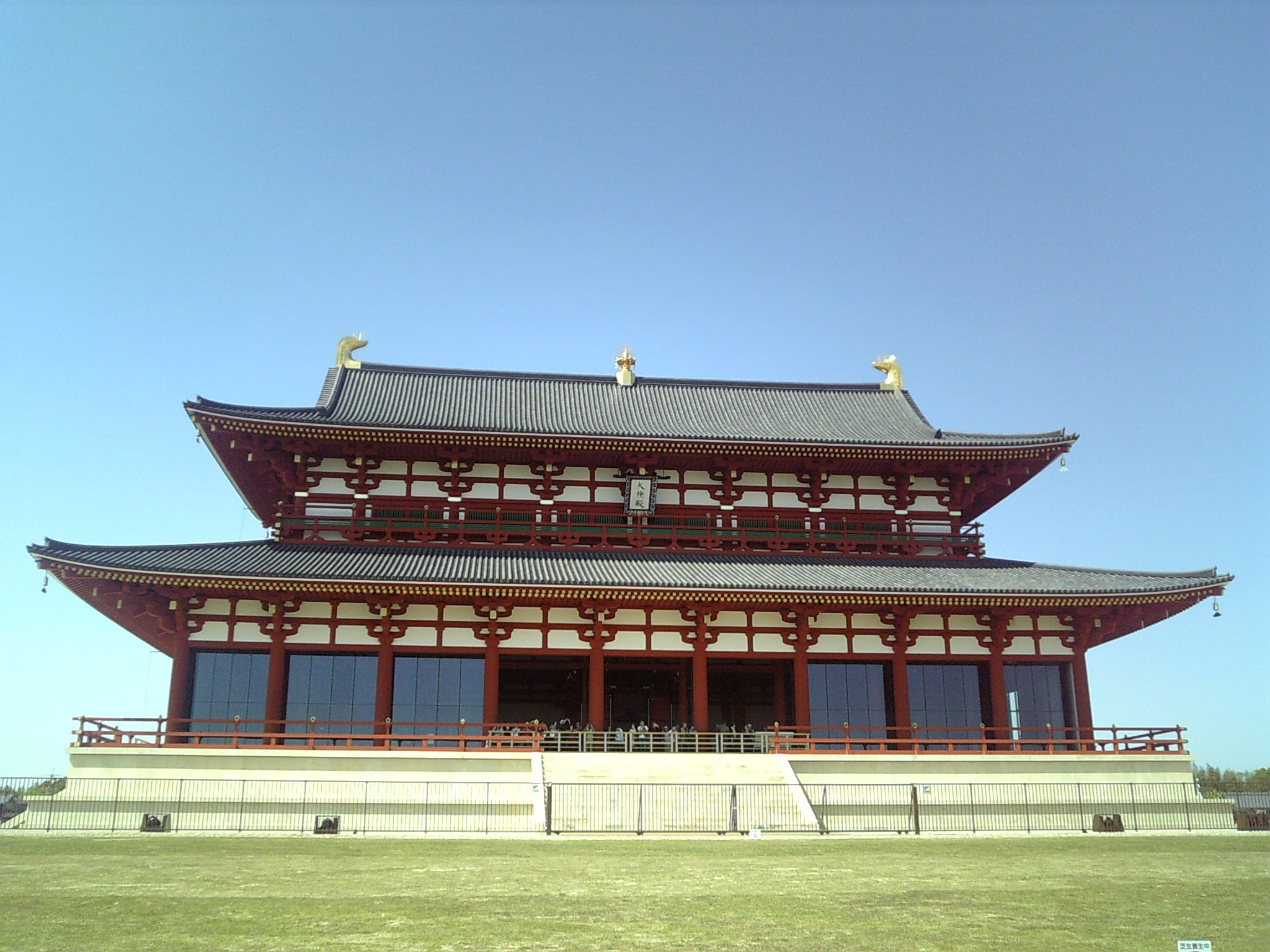 the reconstructed Daigokuden on the site of Heijō Palace